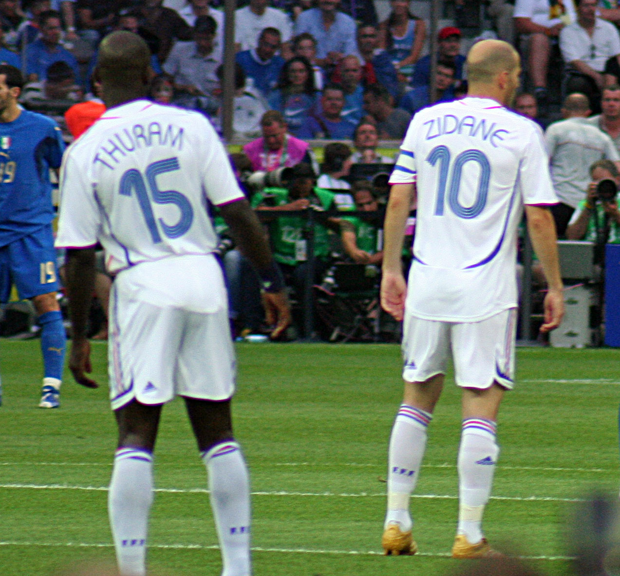 Italy vs France, FIFA World Cup 2006 final, french players Lilian Thuram (left) and Zinedine Zidane (right).